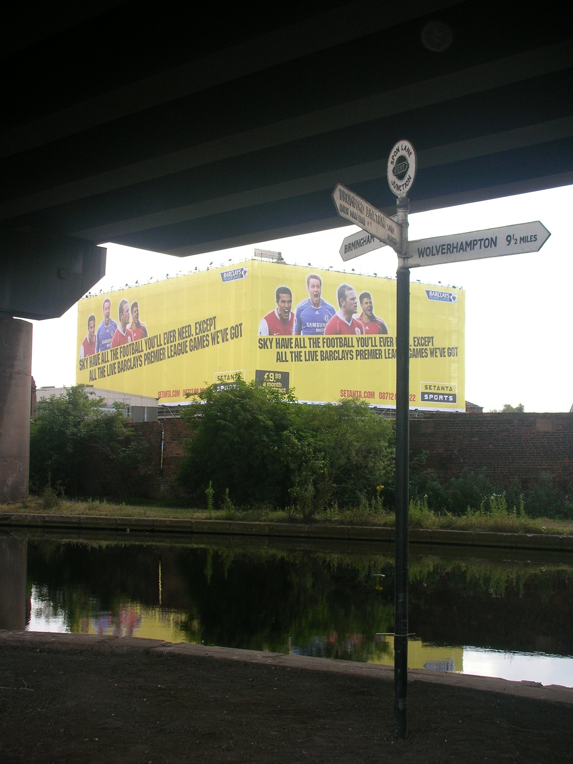 Signpost at Spon Lane Junction beneath the M5 motorway near Oldbury, West Midlands, England. The large yellow advertisement is in fact a huge tarpaulin covering building work on the Grade II listed 'seven storey' building at Chance's glassworks. Photographed by me 9 August 2007. Oosoom